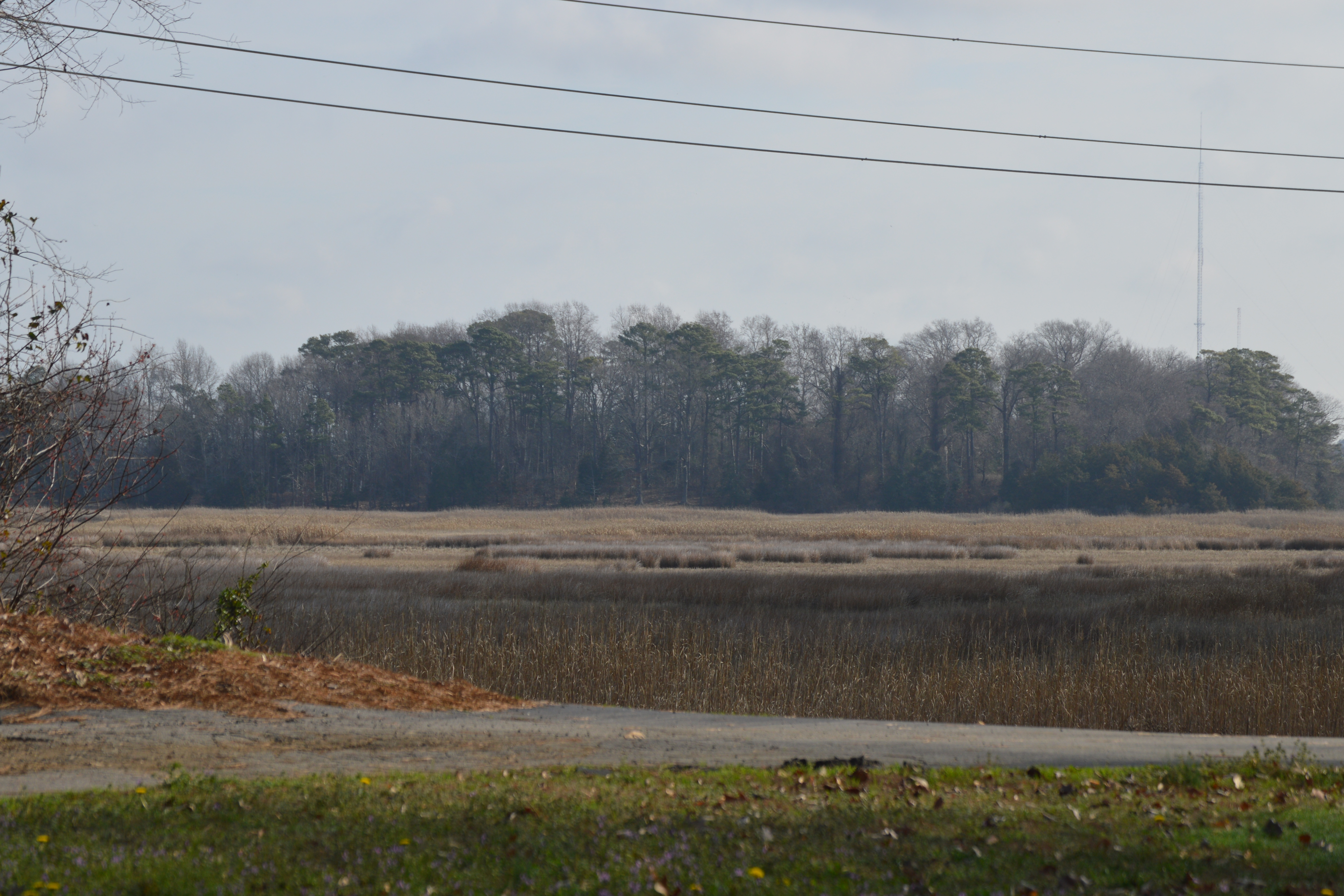 Overview from the southwest of Dumpling Island, a large shell midden on the Nansemond River (flowing through the marshes visible here) in Suffolk, Virginia, United States. The island is a significant archaeological site and has been listed on the National Register of Historic Places.